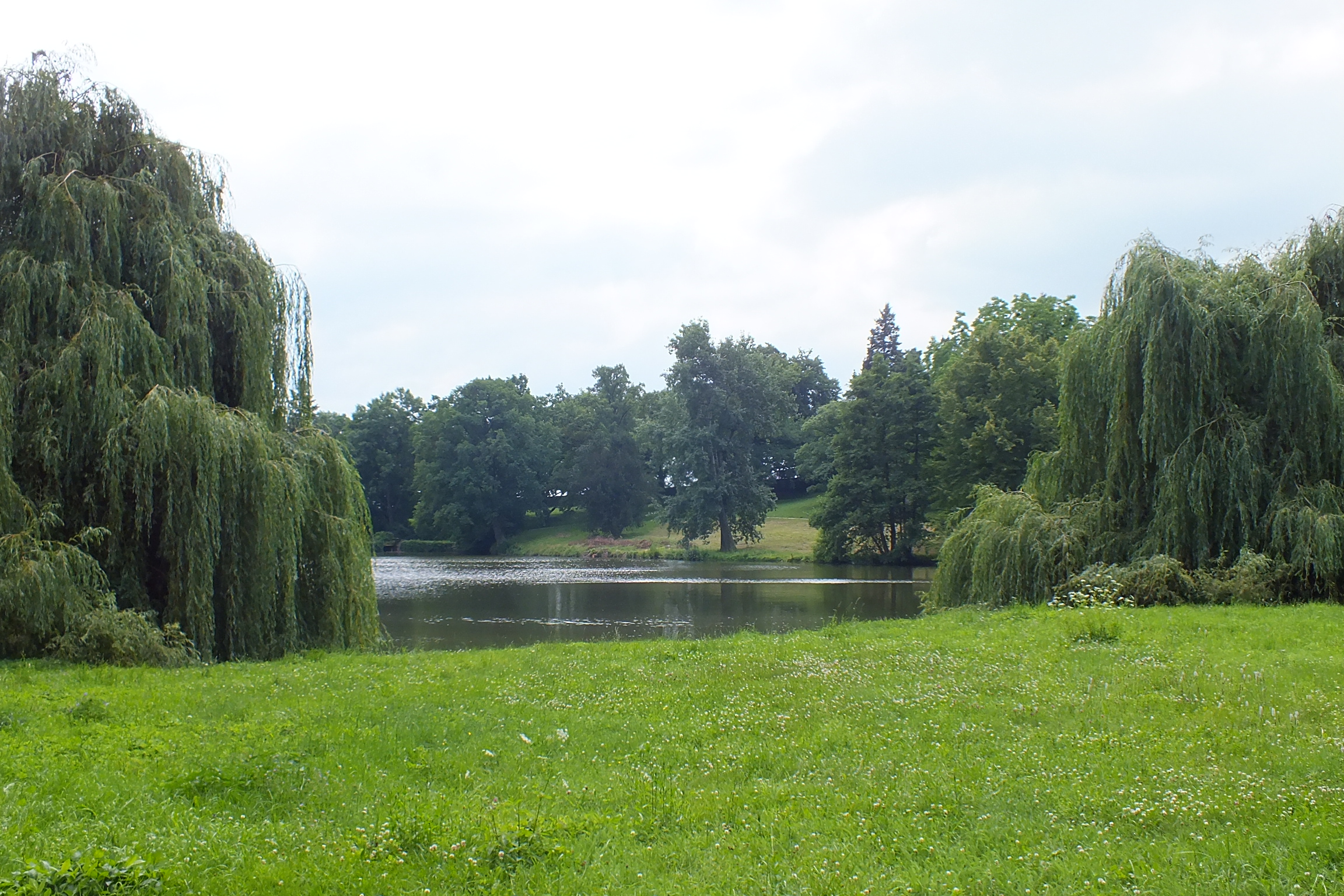 Park at the Chateau in Čechy pod Kosířem